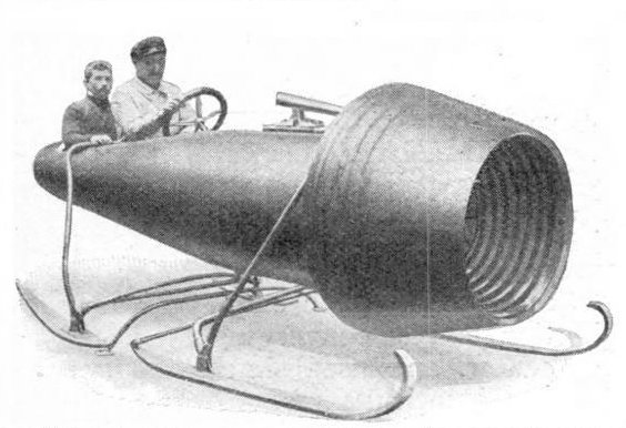 Monochrome photograph of a snow sleigh or ice sled powered by an engine designed by Henri Coandă. The sleigh was owned by Grand Duke Cyril of Russia. Its powerplant was a piston engine which drove a ducted fan or "suction turbine", the same power plant that Coanda had exhibited in 1910 on his first aircraft, later called the Coandă-1910.